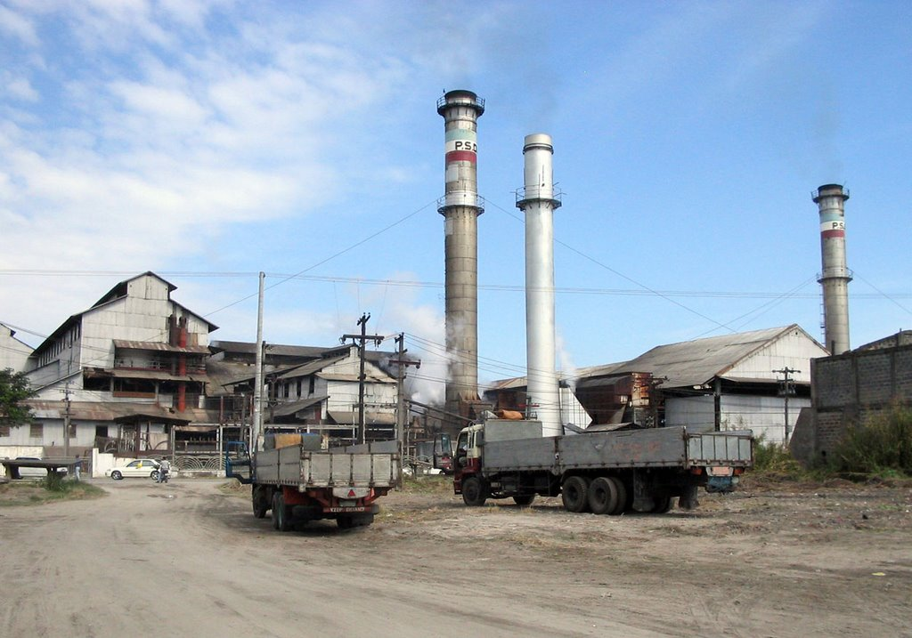 PASUDECO Sugar Central. Ivan Henares